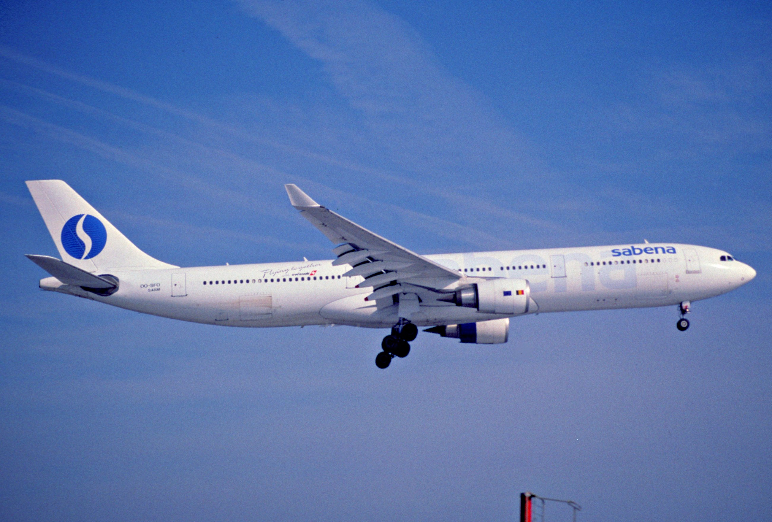 This A330-301 took its first flight on January 31, 1994...(c/n 45) 21/02/1994 Air Inter F-GMDC 12/11/1997 Sabena OO-SFO ceased operations on November 7, 2001, ferried to Chateauroux 18/01/02 22/04/2002 Birdy Airlines (SN Brussels) OO-SFO 01/10/2004 SN Brussels Airlines OO-SFO 25/03/2007 Brussels Airlines OO-SFO